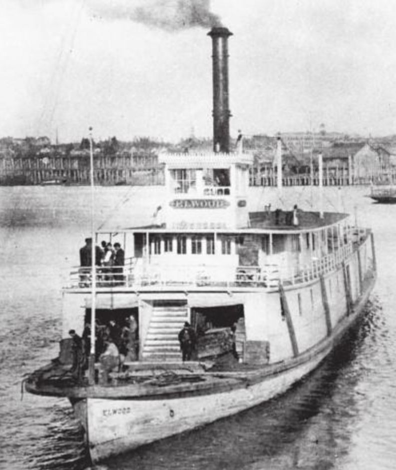 Steamer Elwood at Portland, Oregon, some time between 1891 and 1898.